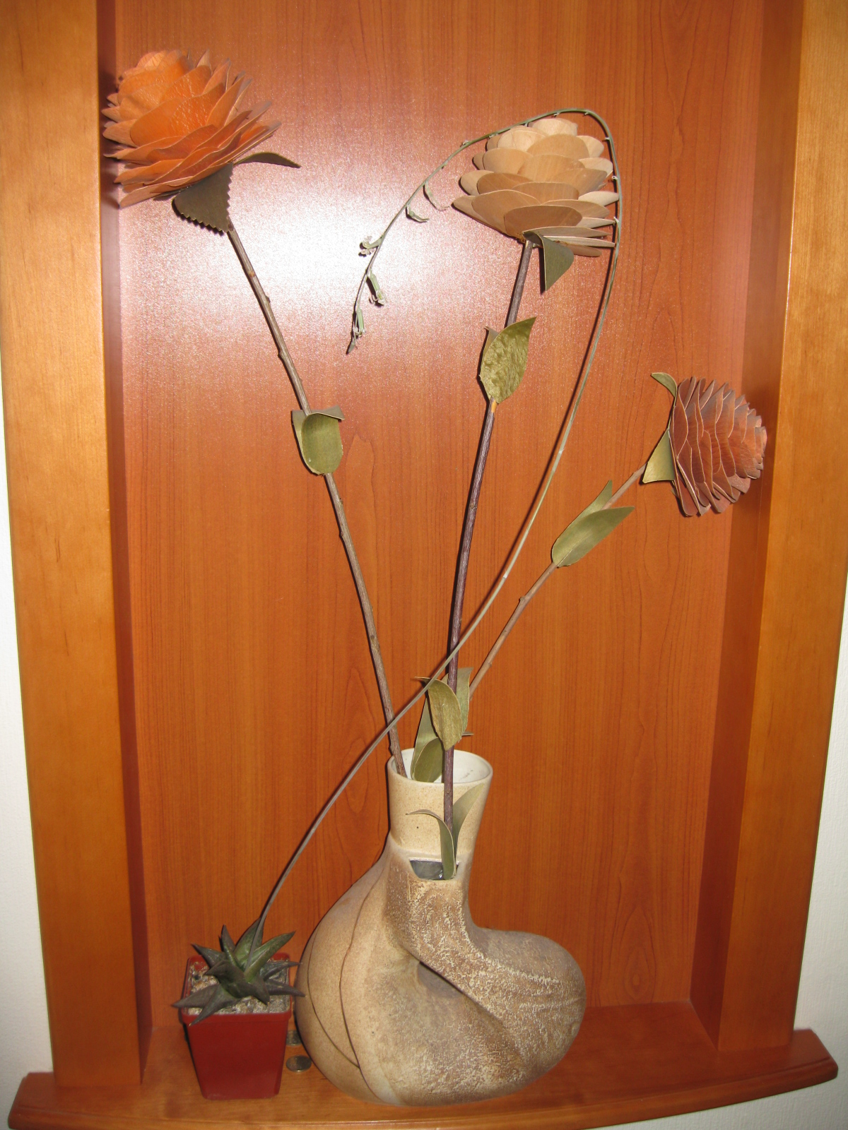 Haworthias peduncle